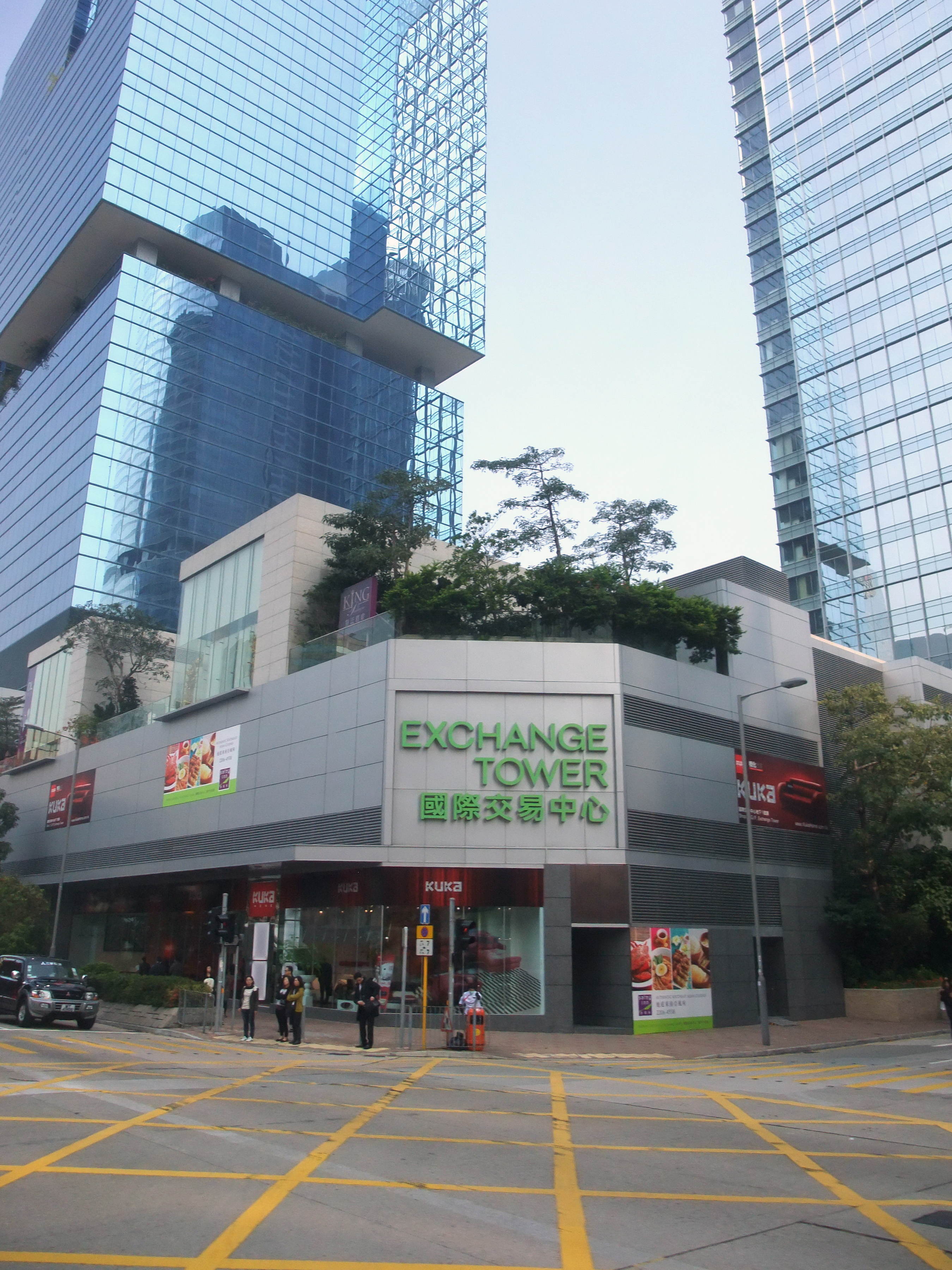 Exchange Tower, Kowloon Bay, Kowloon, Hong Kong.